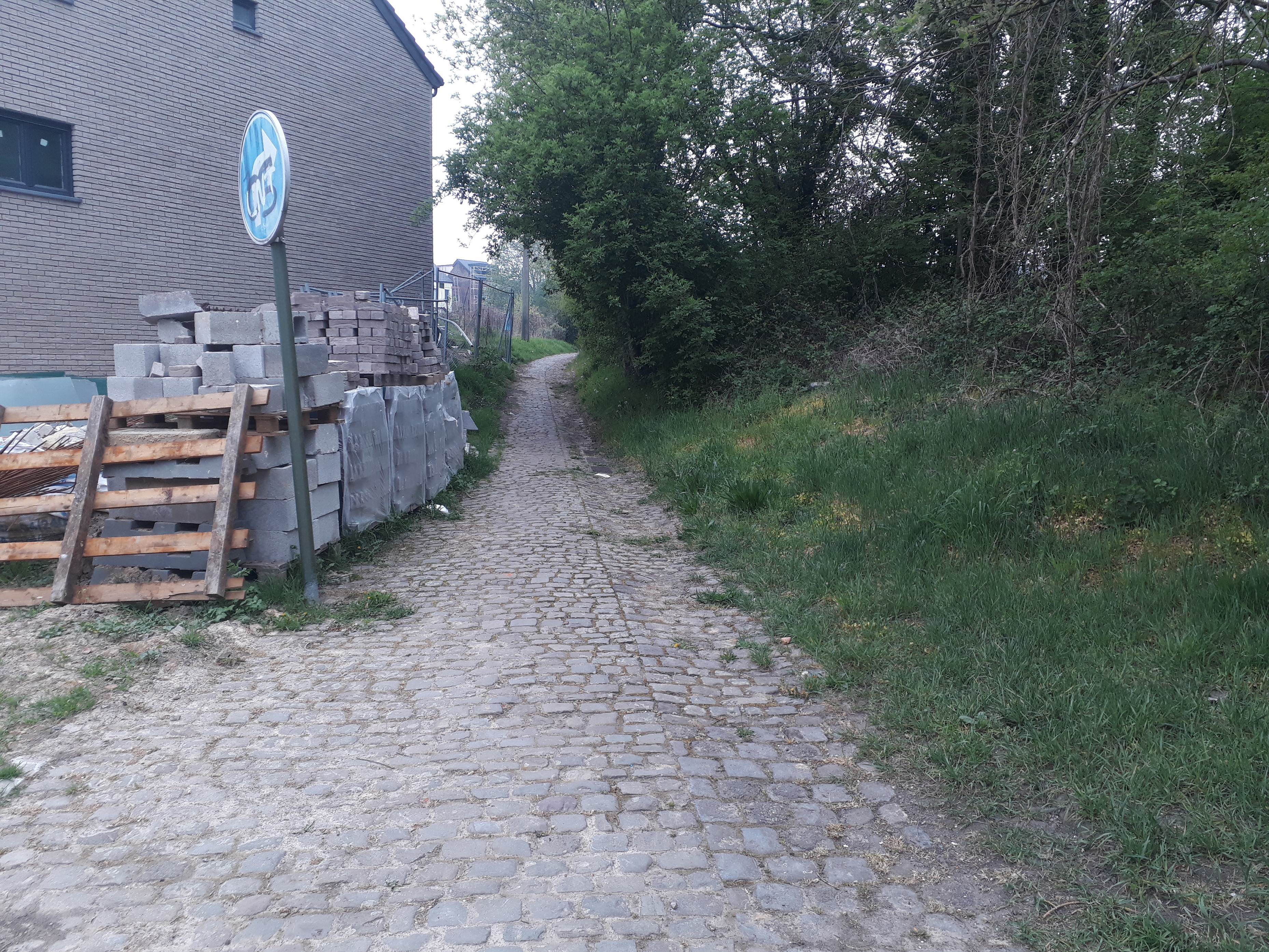 Chemin numéro 26 à Vottem 2